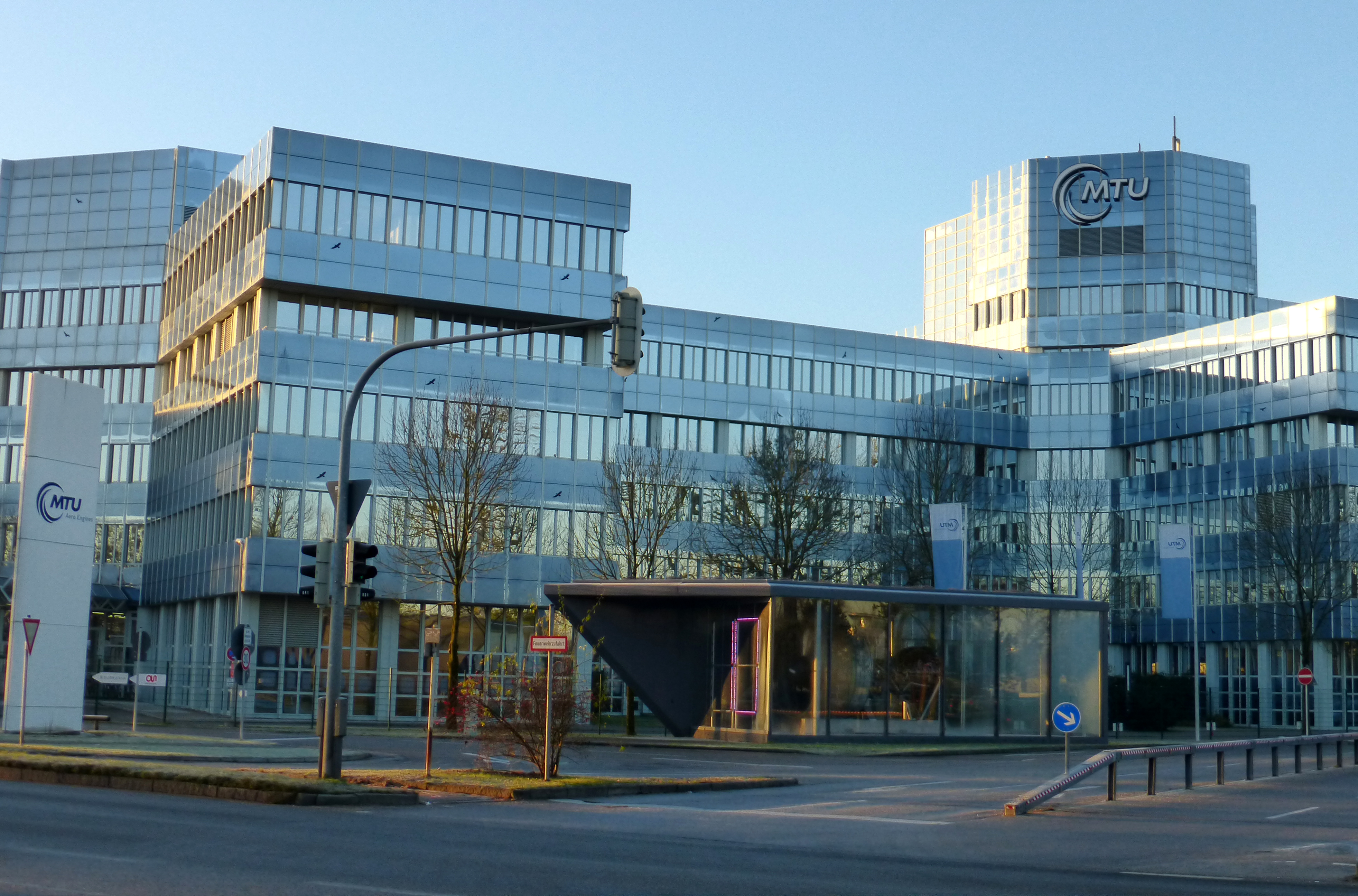 MTU Headquaters Munich